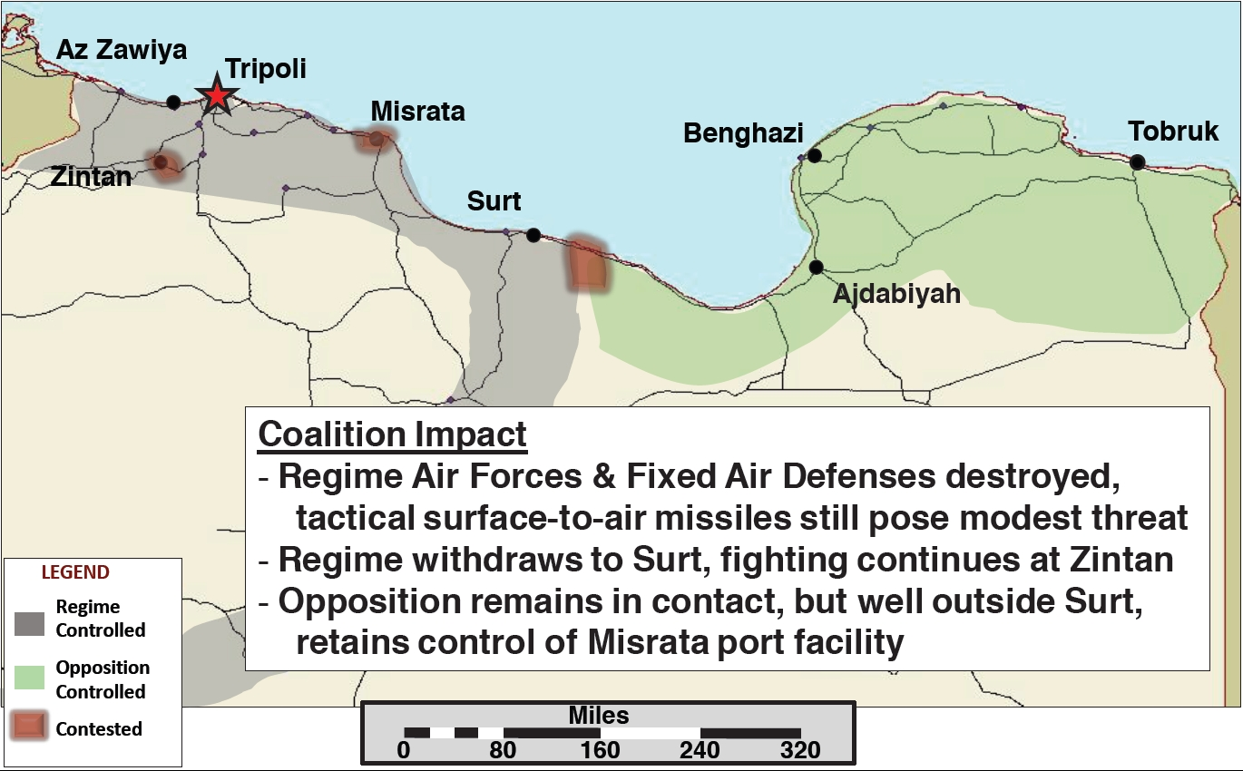 Operation Odyssey Dawn in Libya 2011. Libya Situation as of 28 March 2011. US Vice Admiral Bill Gortney, Director of The Joint Staff: “Here's what things look like today. We now assess that opposition forces are in control of Ajdabiya and have pushed west to within 80 miles of Sirte. We believe the regime is preparing to dig in at Sirte, setting up a number of checkpoints and placing tanks throughout the city; likewise for Zintan, where we assess the regime is preparing to reinforce existing positions. Reporting from Misurata indicates heavy fighting, particularly near the city center. So not too much of a change since I last briefed you. Word has come in to us this morning that the regime is busing reporters out there today. For what purpose, we do not know. I'm comfortable telling you, however, that we still have not received a single confirmed report of civilian casualties caused by the coalition, and that we will continue to be just as precise as we can in keeping up the pressure on regime forces while protecting innocent civilians. In fact, I'm quite confident that in and around Misurata, regardless of who is there to watch, we have been and we will be effective at hitting exactly what we're aiming at.”